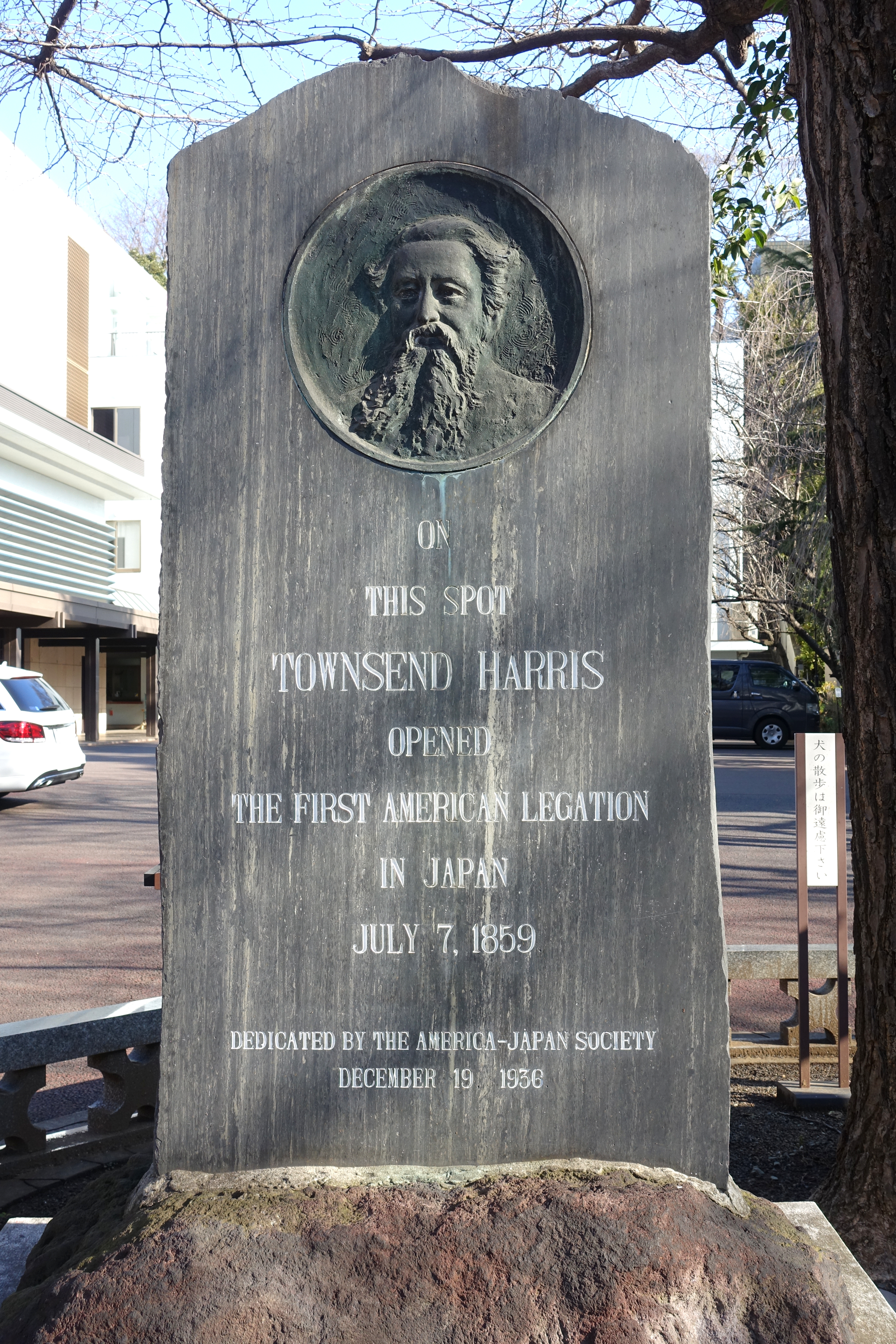 Zenpukuji temple - Minato, Tokyo, Japan.